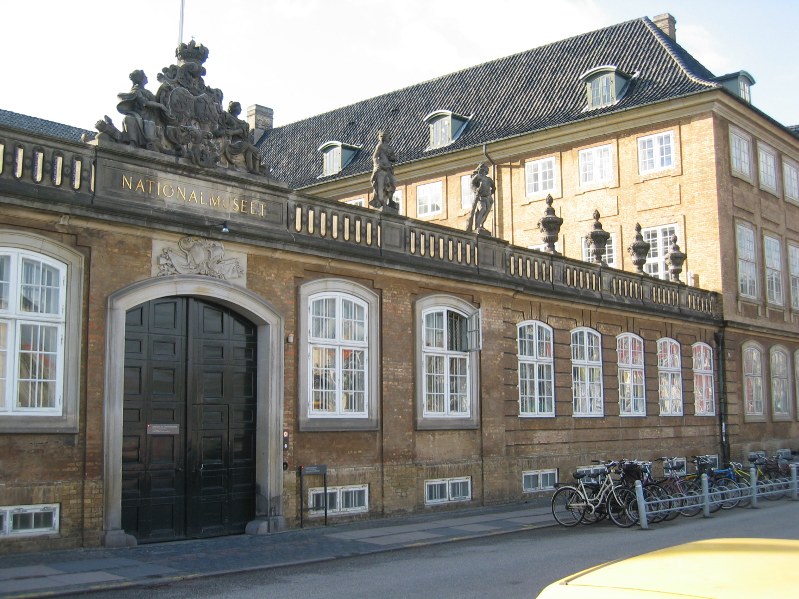 The National Museum of Denmark (Prinsens Palæ), the gallery with the gate along Frederiksholms Kanal